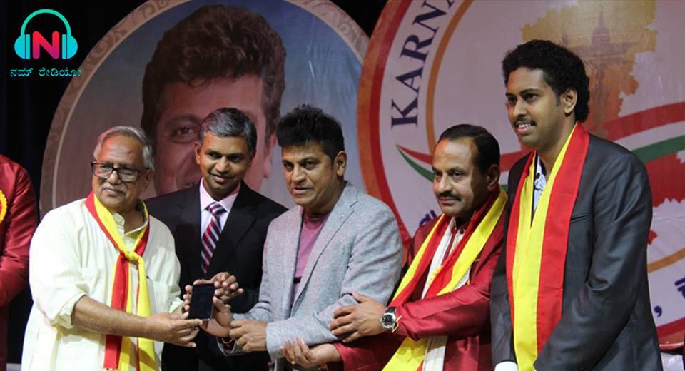 Launch of NammRadio Gulf